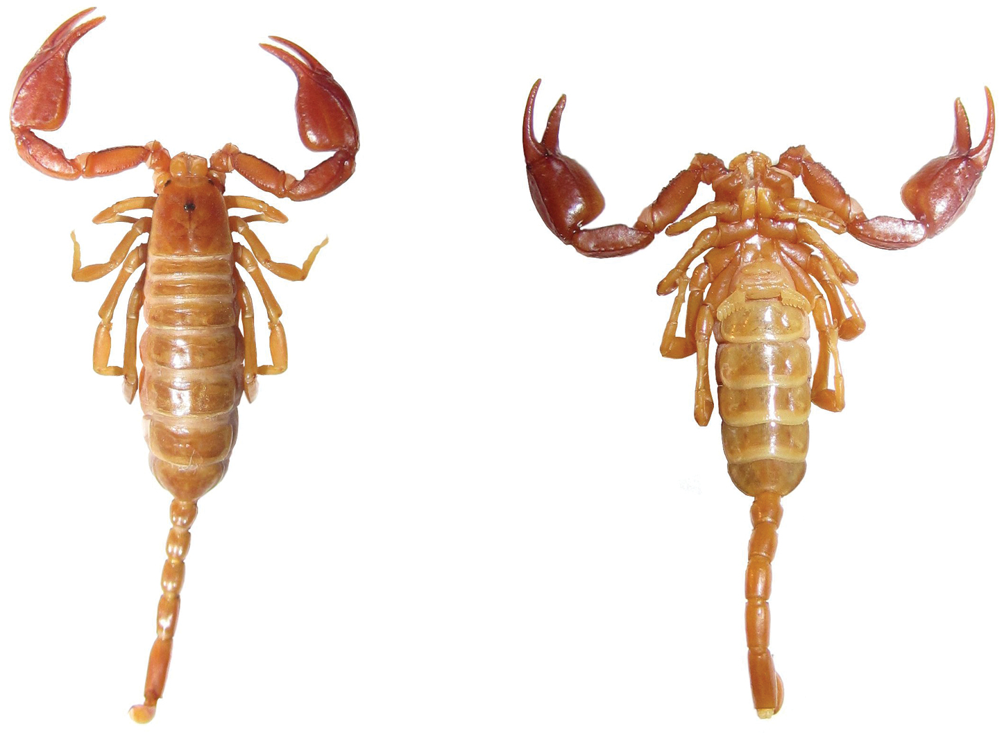 Dorsal and ventral views of Euscorpius avcii female.